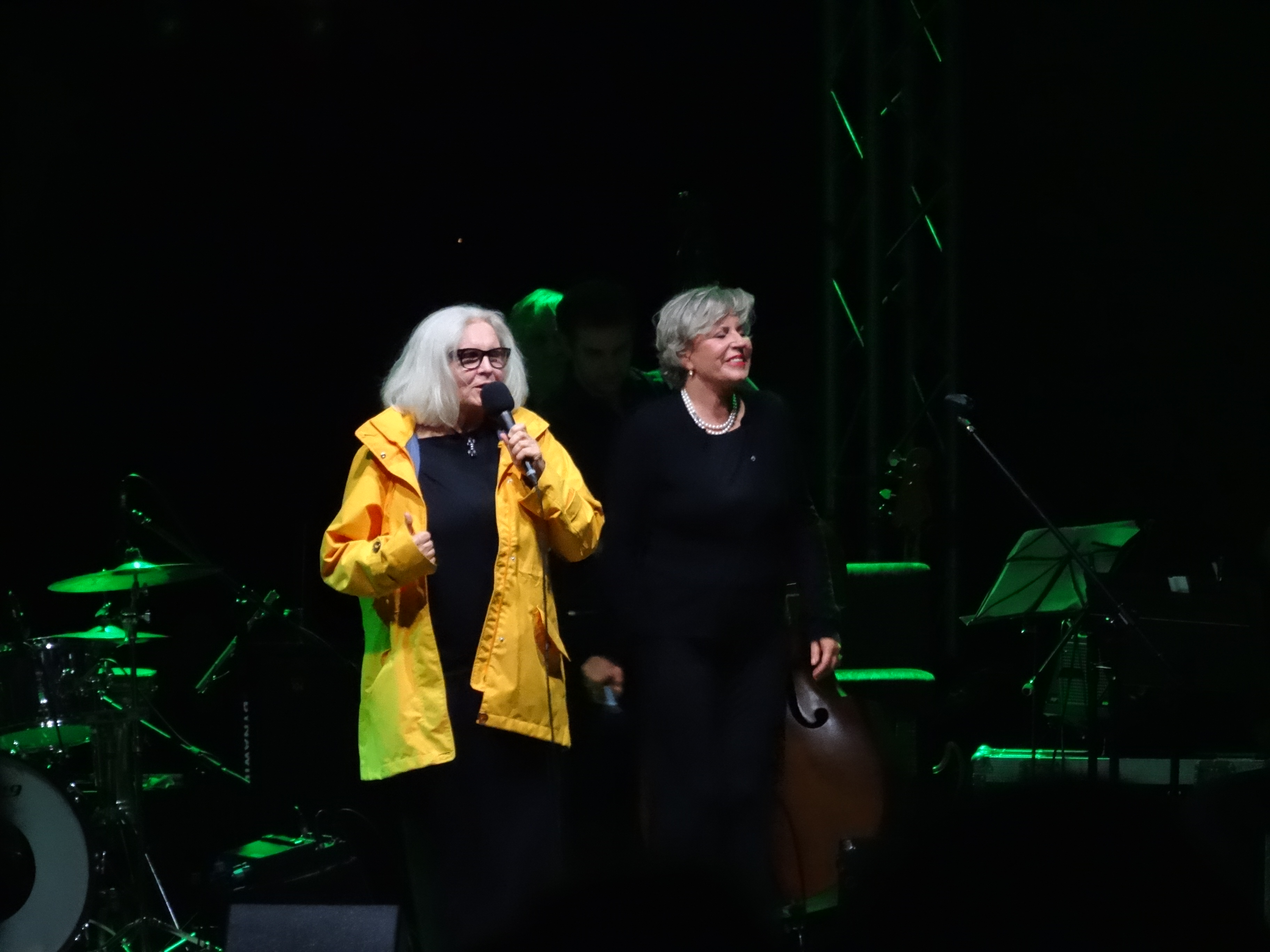 Polish singers Magda Umer and Krystyna Janda performing at Teatr Atelier, Sopot Aug 2014